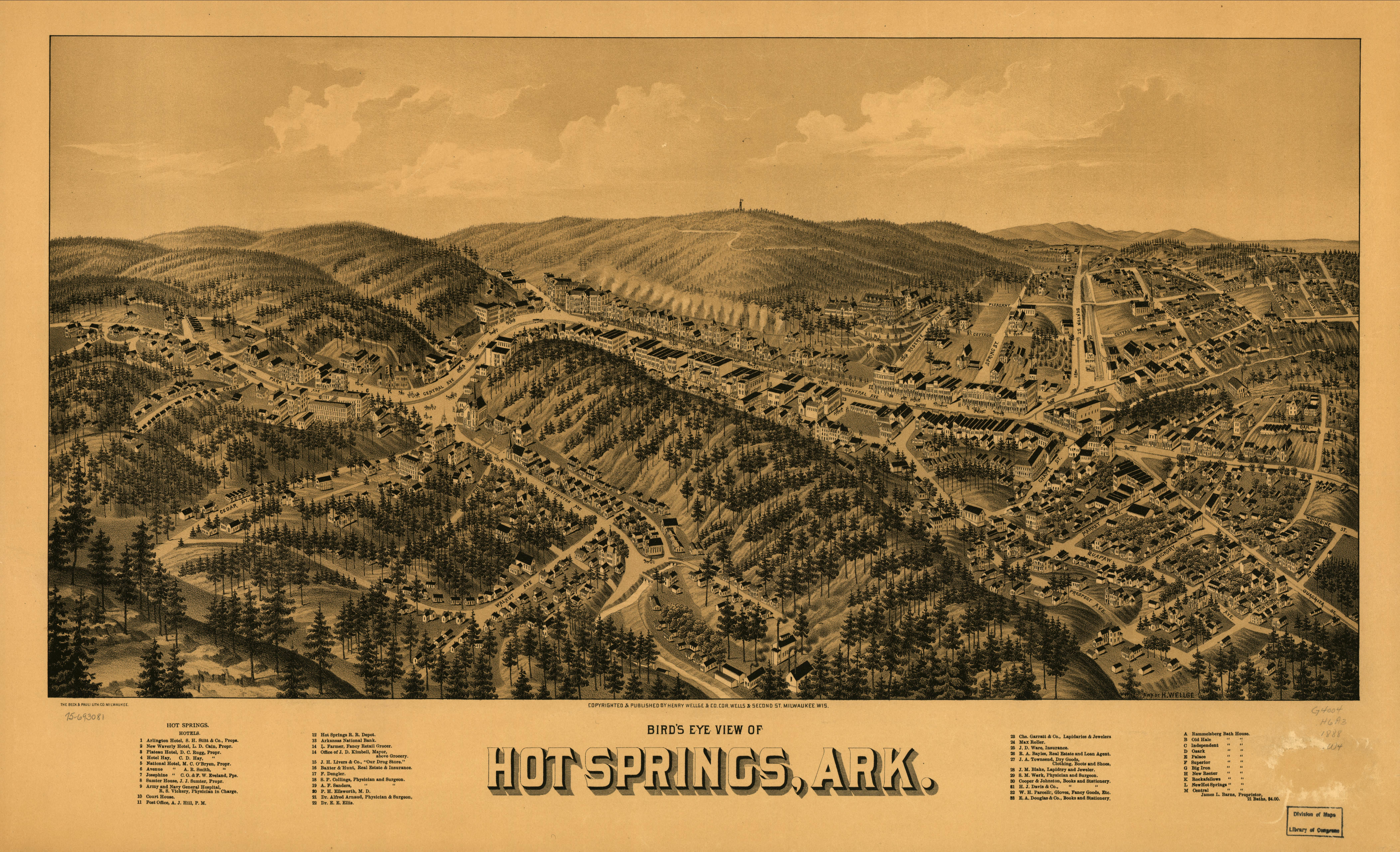 Antique panoramic map of Hot Springs, Arkansas, United States.